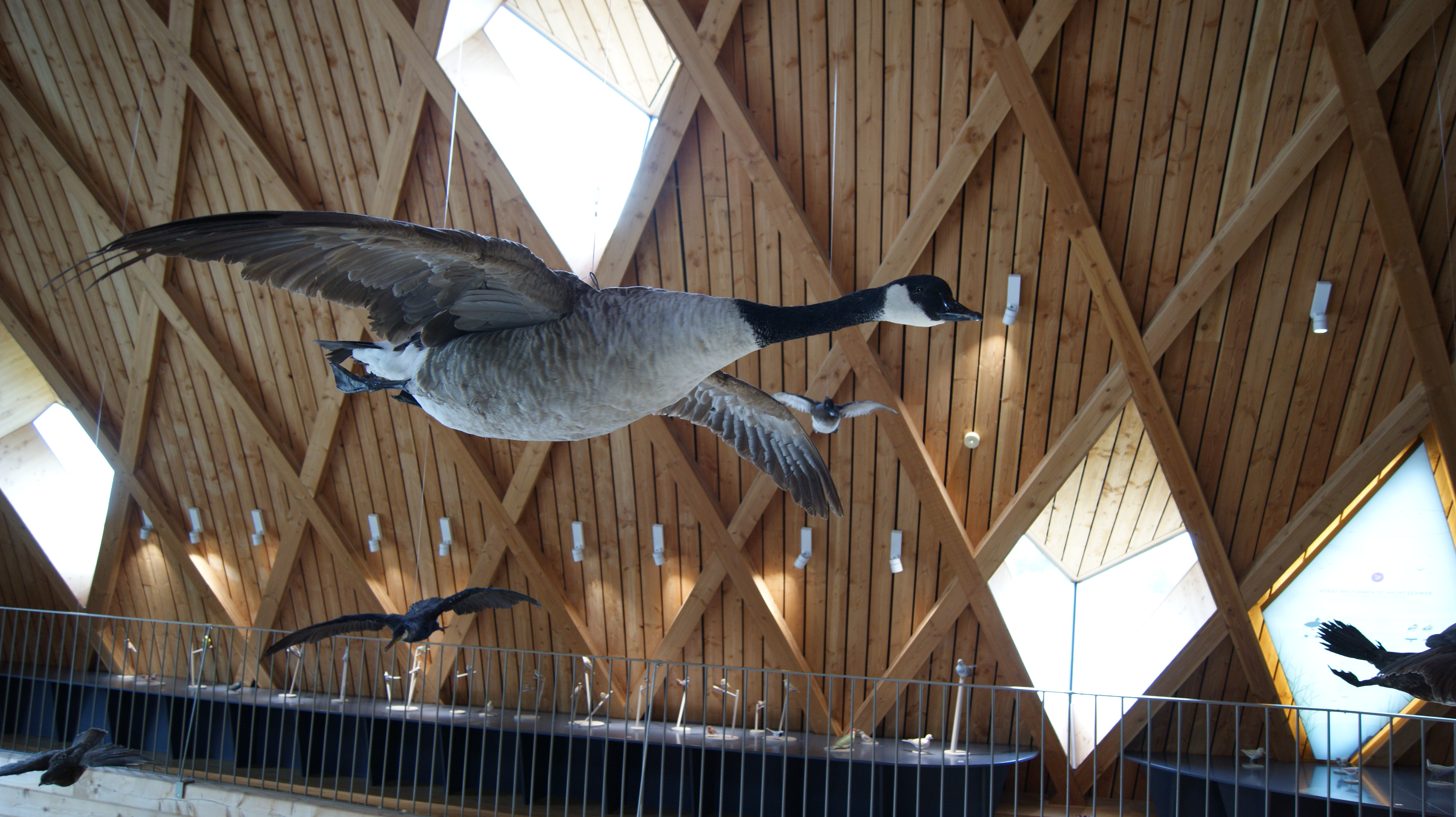 Nature Conservation Center / Visitor Center "Biodiversum - Camille Gira" (formerly "Nature et Forêt Biodiversum") in Remerschen (lux .: Rëmerschen or Riemëschen), municipality of Schengen in the Grand Duchy of Luxembourg. Architect: François Valentiny.